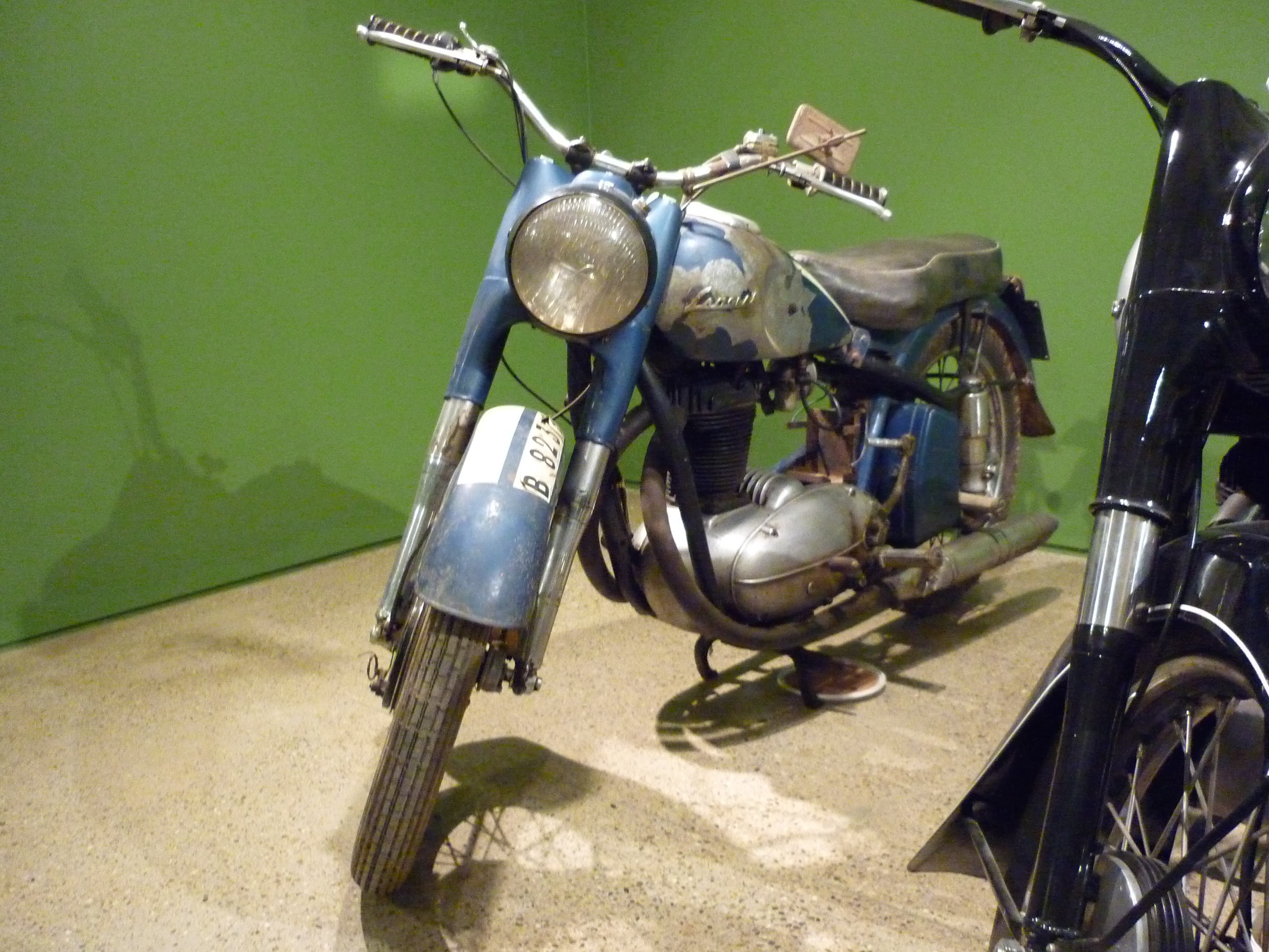 Sanglas 350 (1945-50) with modifications (rear suspensions & double seat). It was the first Sanglas in Vic, Osona (Catalonia).Museu Industrial del Ter, Manlleu, Catalonia (9 to 21 november 2010)